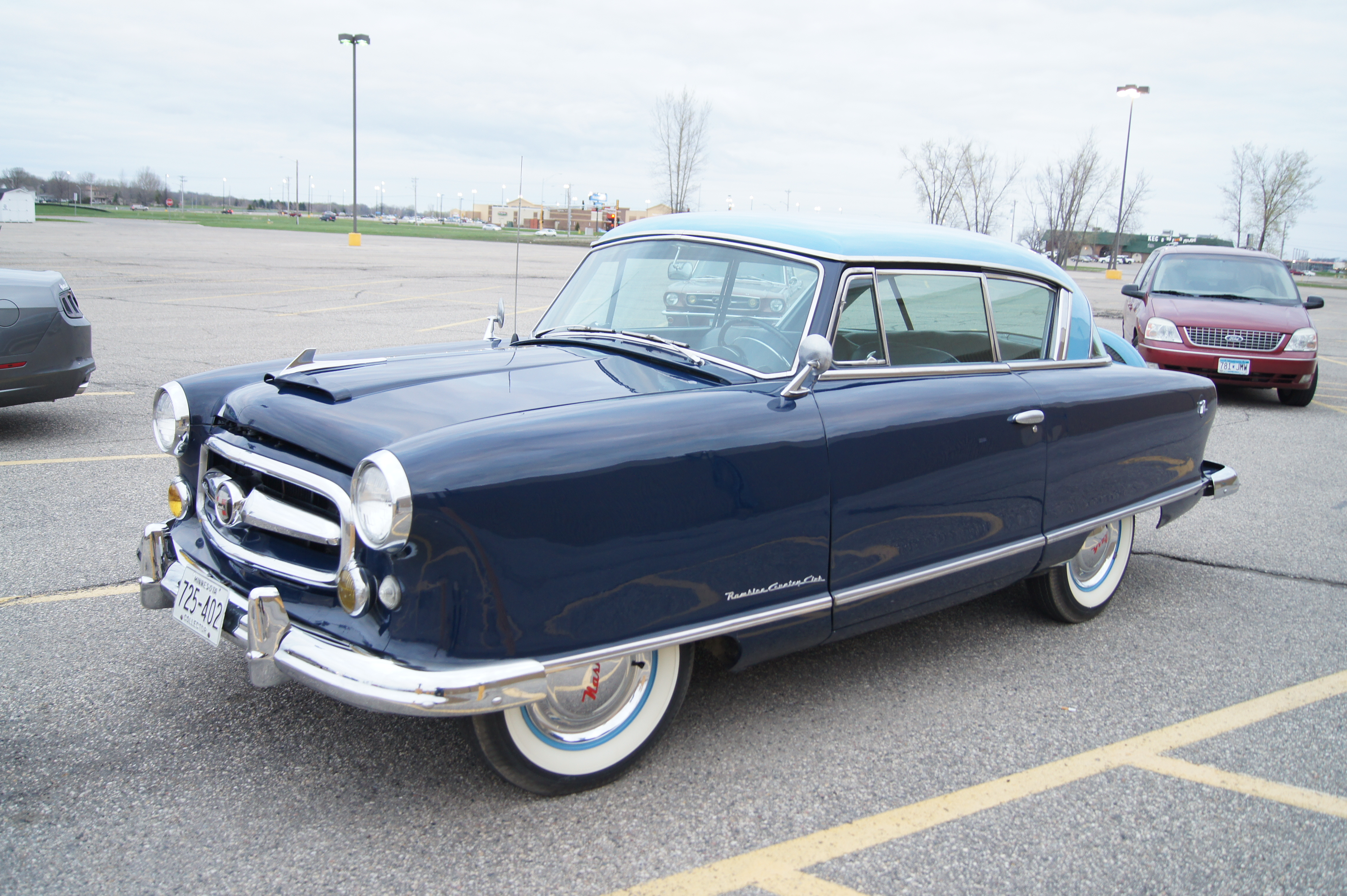 Willmar Car Club 2014 Kandi Mall Display